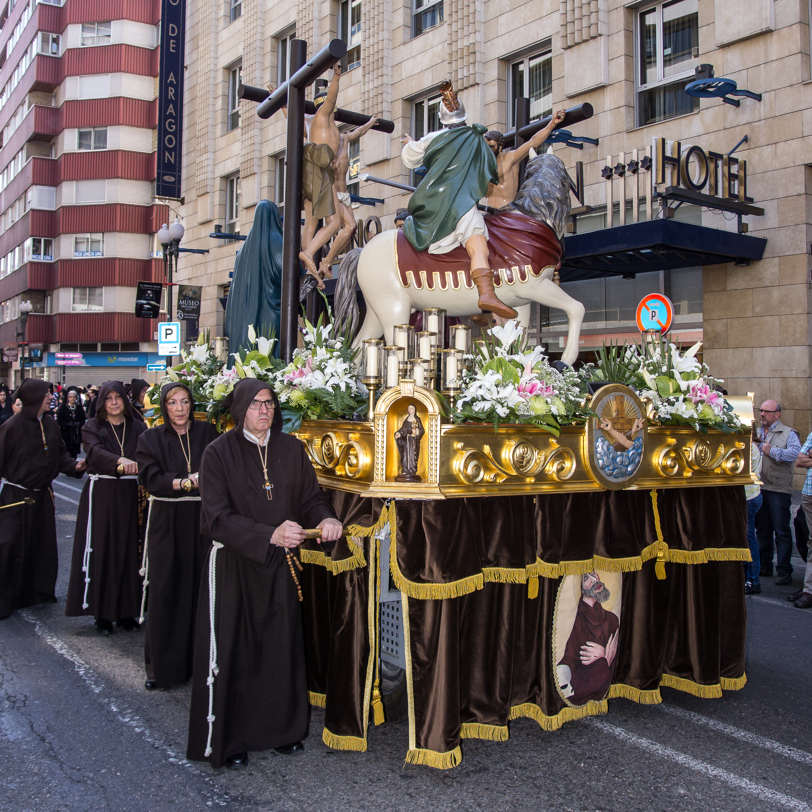 OLYMPUS DIGITAL CAMERA This is a photography of a Folklore festival in Spain (Wikidata id Q9075892).